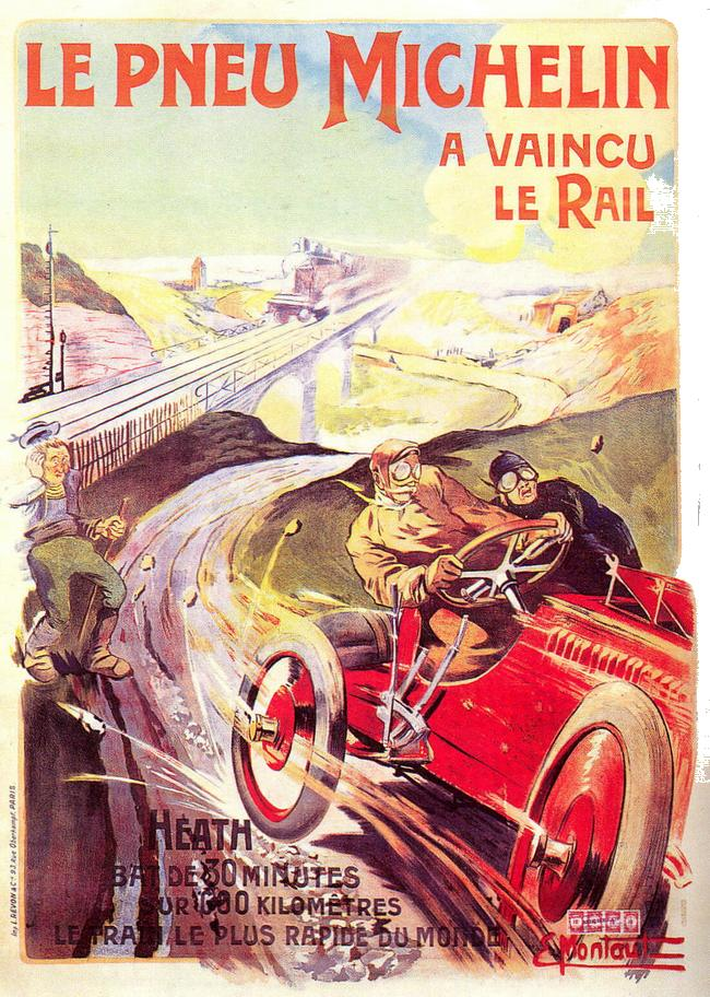 Advertising poster for Michelin tyres. (publicité expliqué dans La Vie au Grand Air du 6 octobre 1904, après la victoire de George Heath au circuit des Ardennes, article de Georges Prade (1875-1920): "La route a vaincu le rail", p.814-815).